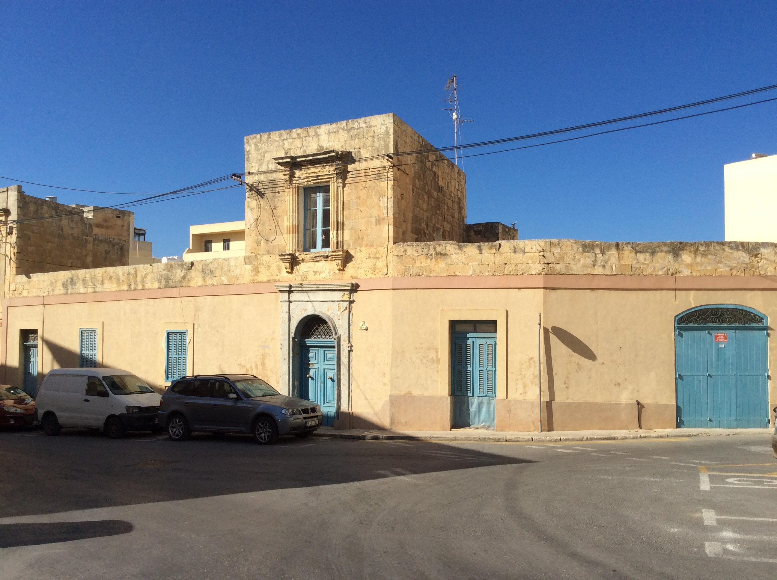 Architecture of Zejtun